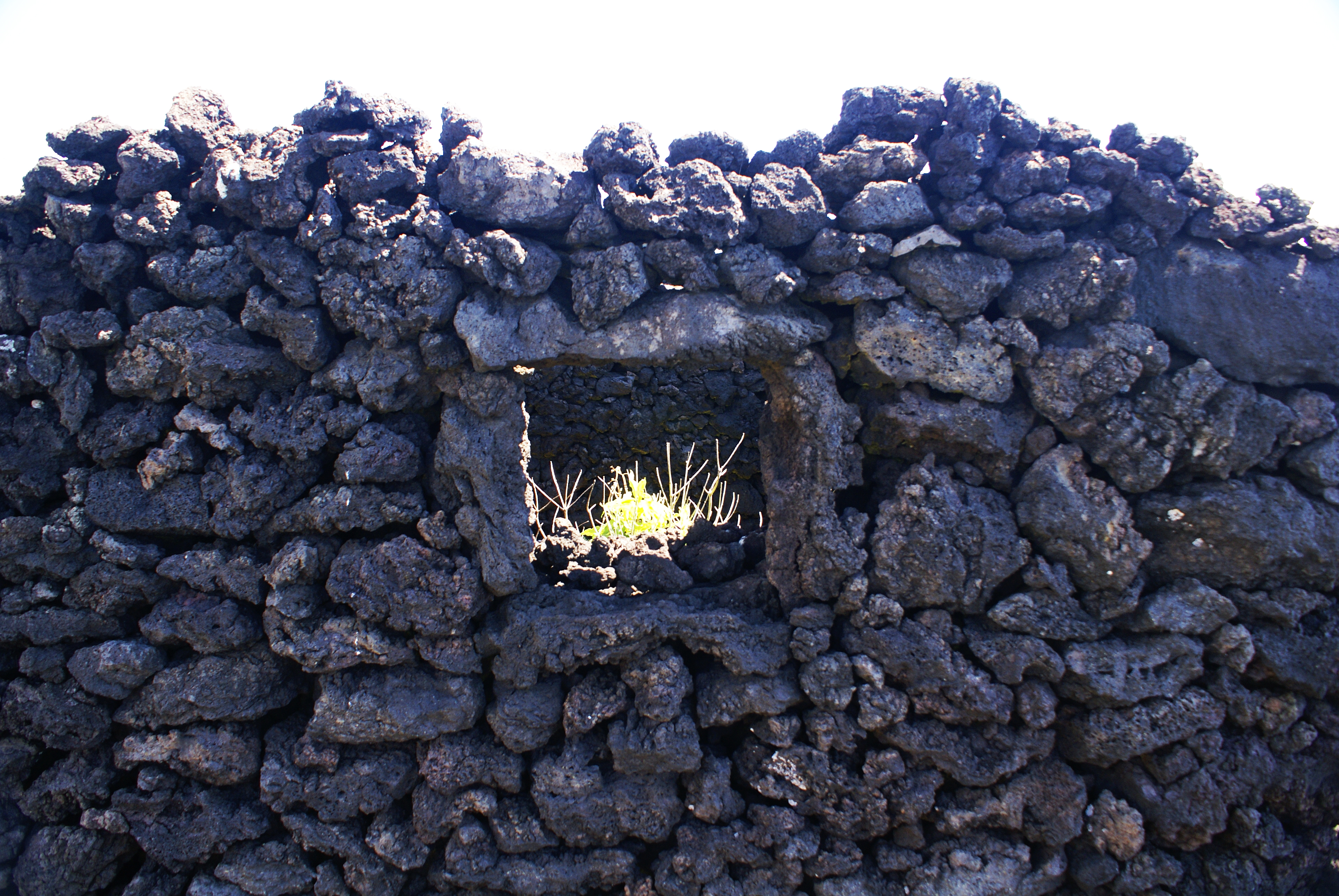 São Caetano, adegas abandonadas nas vinhas de São Caetanho, São Mateus, Madalena, ilha do Pico, Açores, Portugal